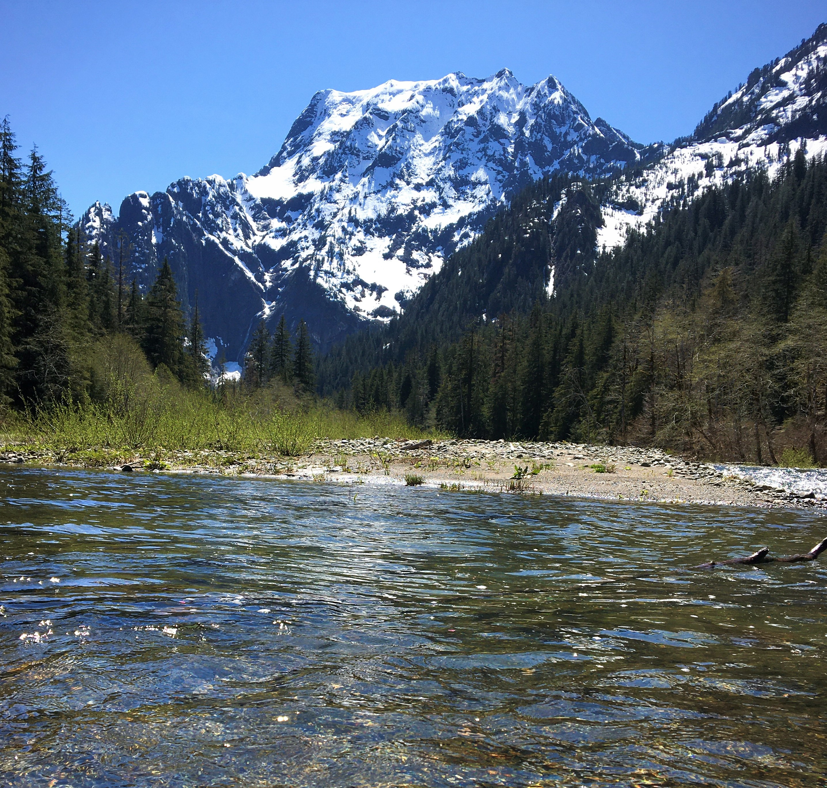 View of Big Four Mountain from the South Fork Stillaguamish River, Mt. Baker-Snoqualmie National Forest. Photo by Holly Snarr June 2020